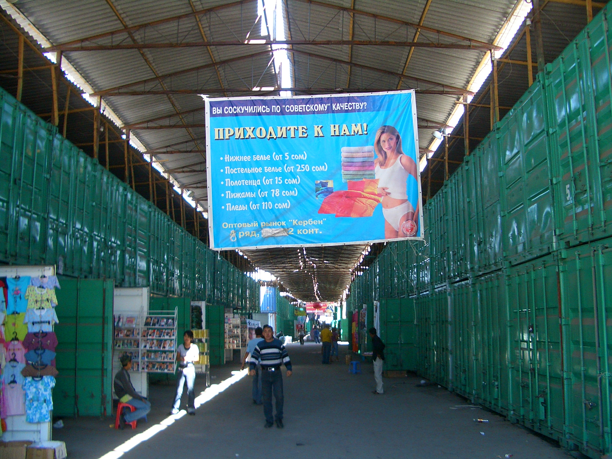 A typical aisle in the clothing section of Dordoy Bazaar.